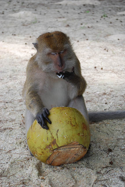 A beach monkey enjoying the coconut fruit. Picture was captured at Beras Basah Island.